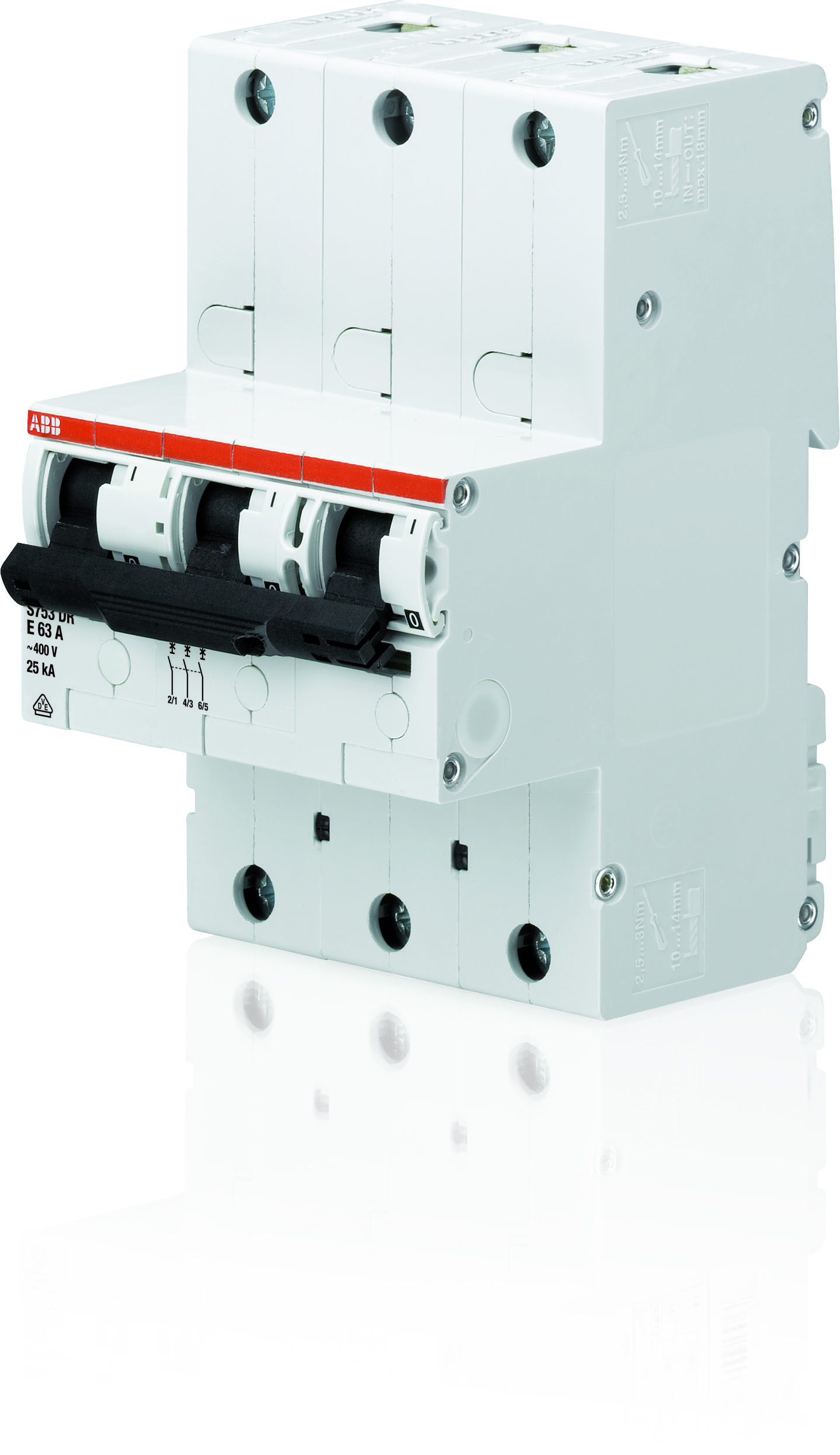 ABB 3 poles SMCB S753DR E63